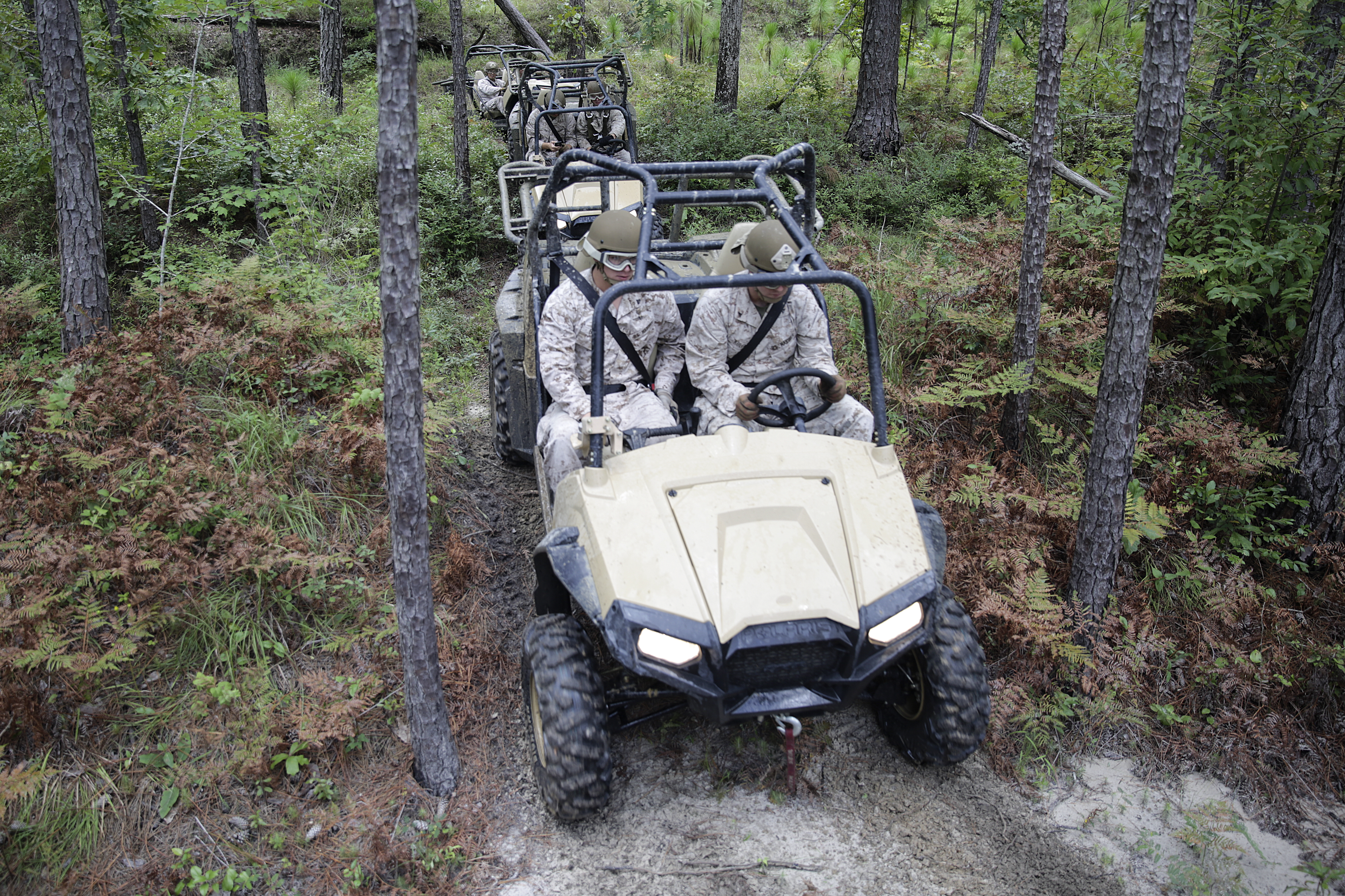 Marines with Alpha Company, 2nd Reconnaissance Battalion drive Polaris Razors over steep and narrow bumpy paths in the woods during a basic recreational off-highway vehicle training qualification course on Camp Lejeune, N.C., Sept. 1, 2015. The course is designed to introduce Marines to the two-seater all-terrain vehicle, and familiarize them to its capabilities and safety consideration. (U.S. Marine Corps photo by Cpl. Alexander Mitchell/released) Unit: II Marine Expeditionary Force